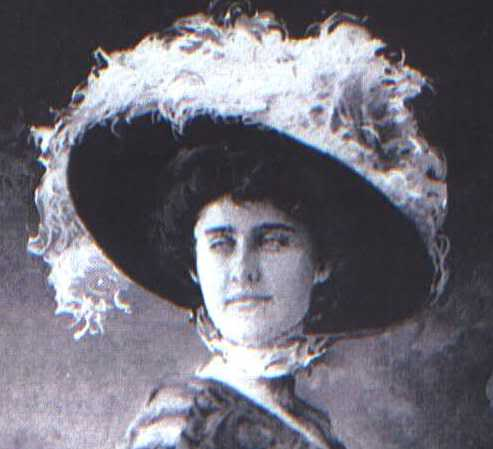 Edith Corse Evans (1875-1912), a prominent New York socialite and a victim of the sinking of the Titanic.